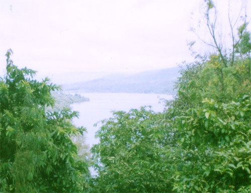 The resovoir behind the Koyna Dam in Maharashtra, India.